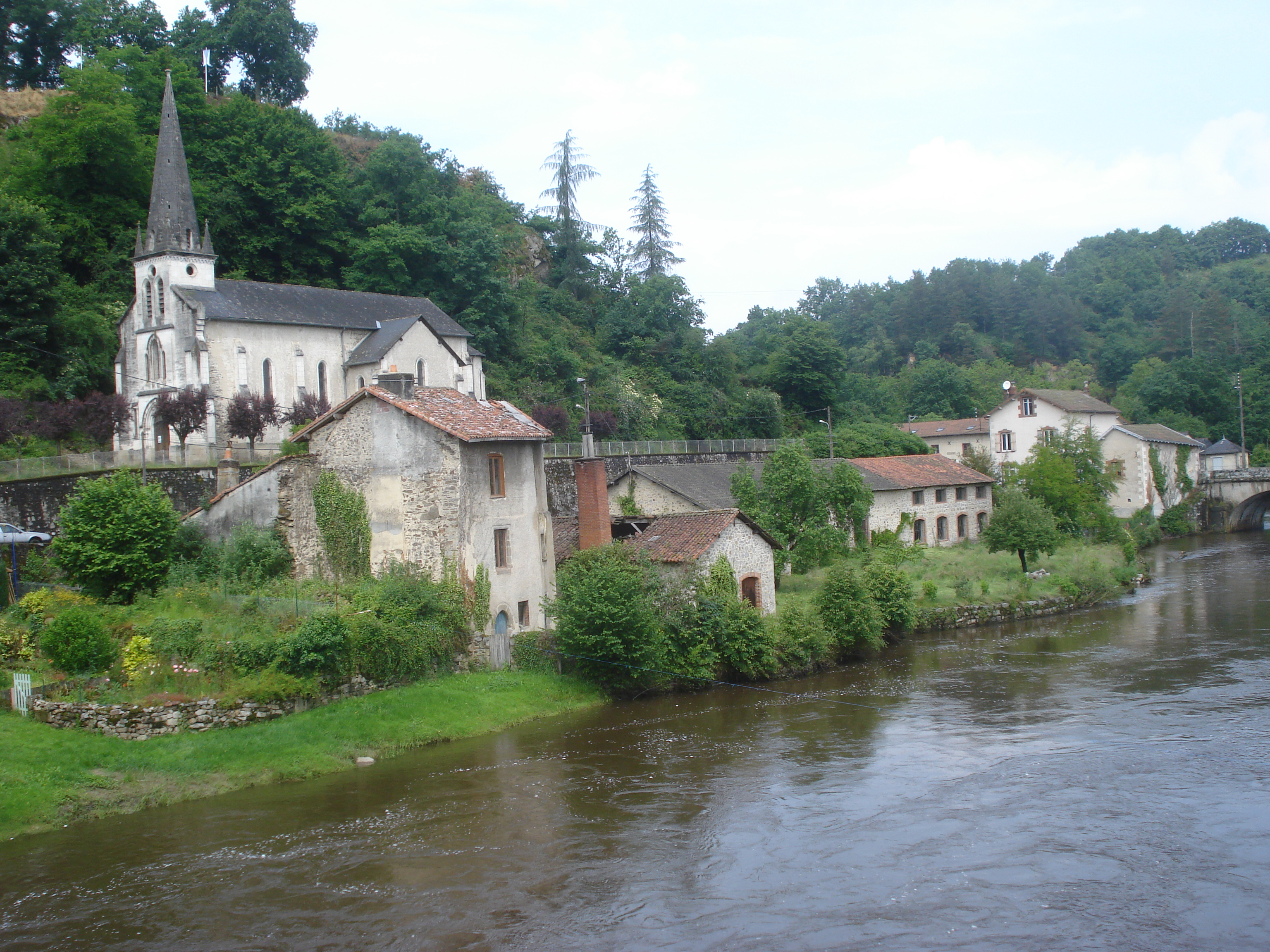 Vienne river and church Pont-de-Noblat (Haute-Vienne, Fr).